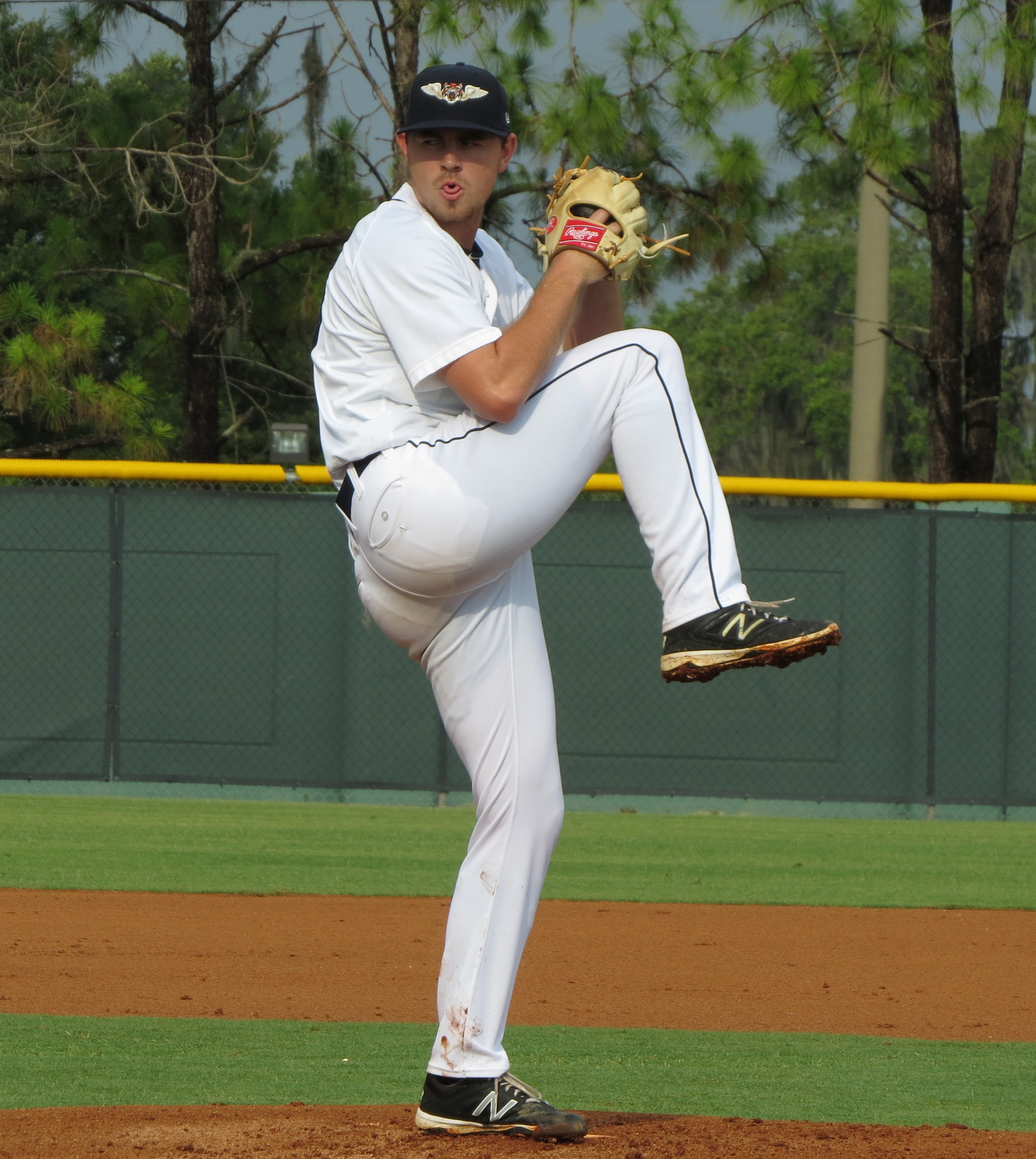 Alexander on the mound